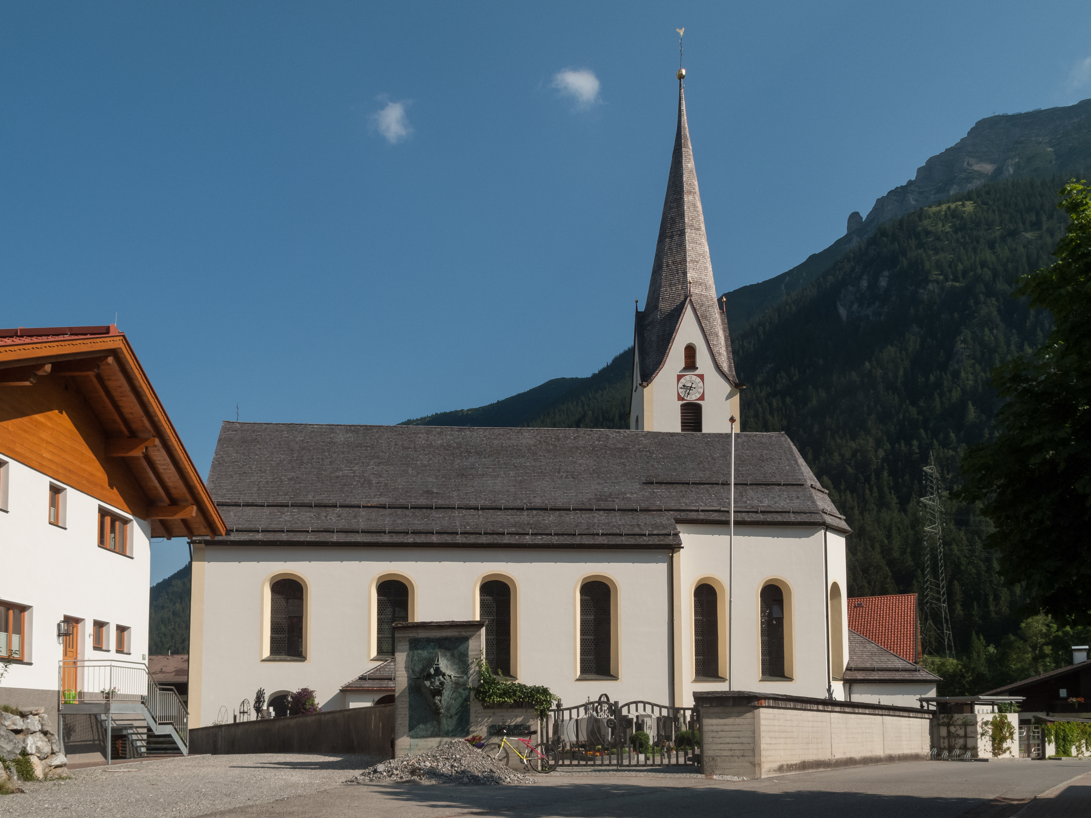 Bichlbach, church: die Sankt Lorenzkirche